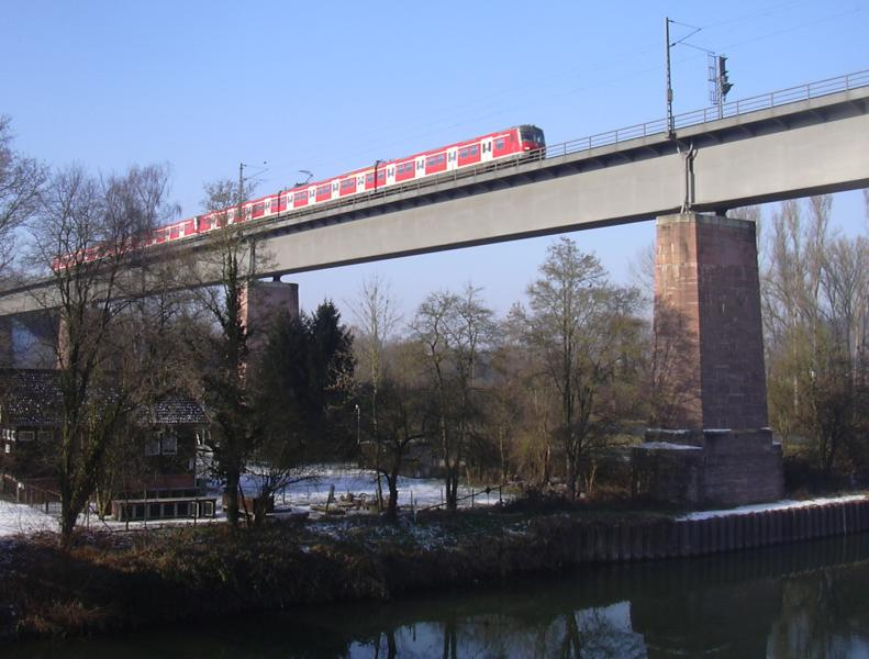 Railway bridge near Marbach am Neckar (Germany)